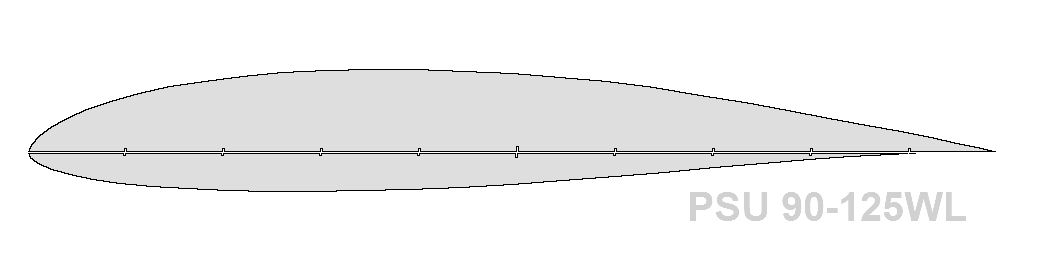 Winglet Airfoil design by Mark D. Maughmer and Michael Selig at the Pennsylvania State University.